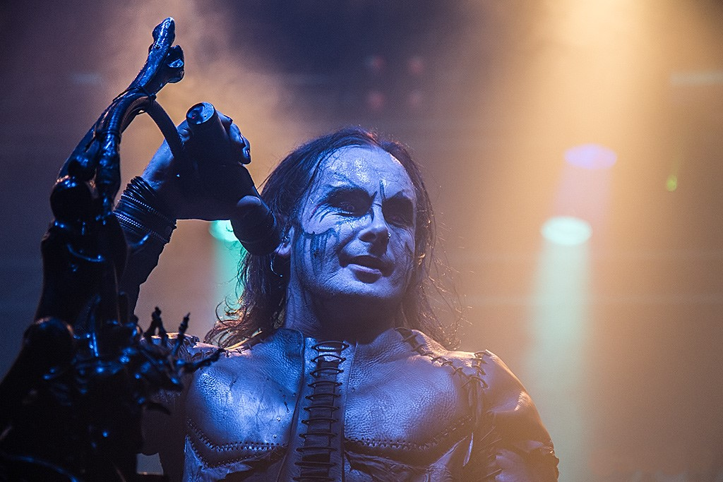 Cradle of Filth - 7.12.2012 - Music Hall, Geiselwind